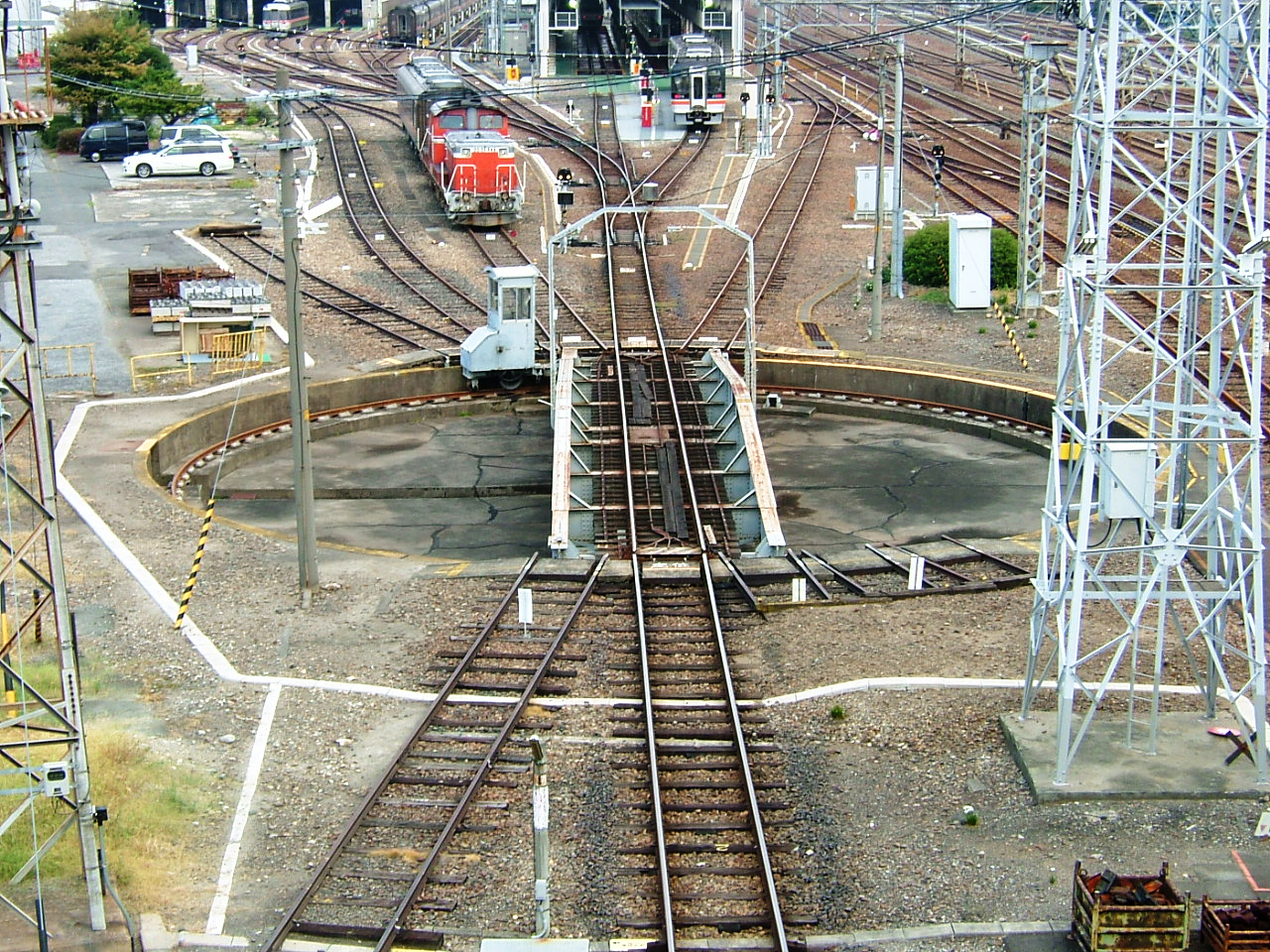 Turntable of Railroad. A picture is the turn stand of the JR Central Nagoya vehicle division in Japan.